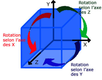 Positions and spatial orientations of the arrows are incompatible with descriptions. The error is particularly striking with the red arrow, « Rotation selon l’axe des X »